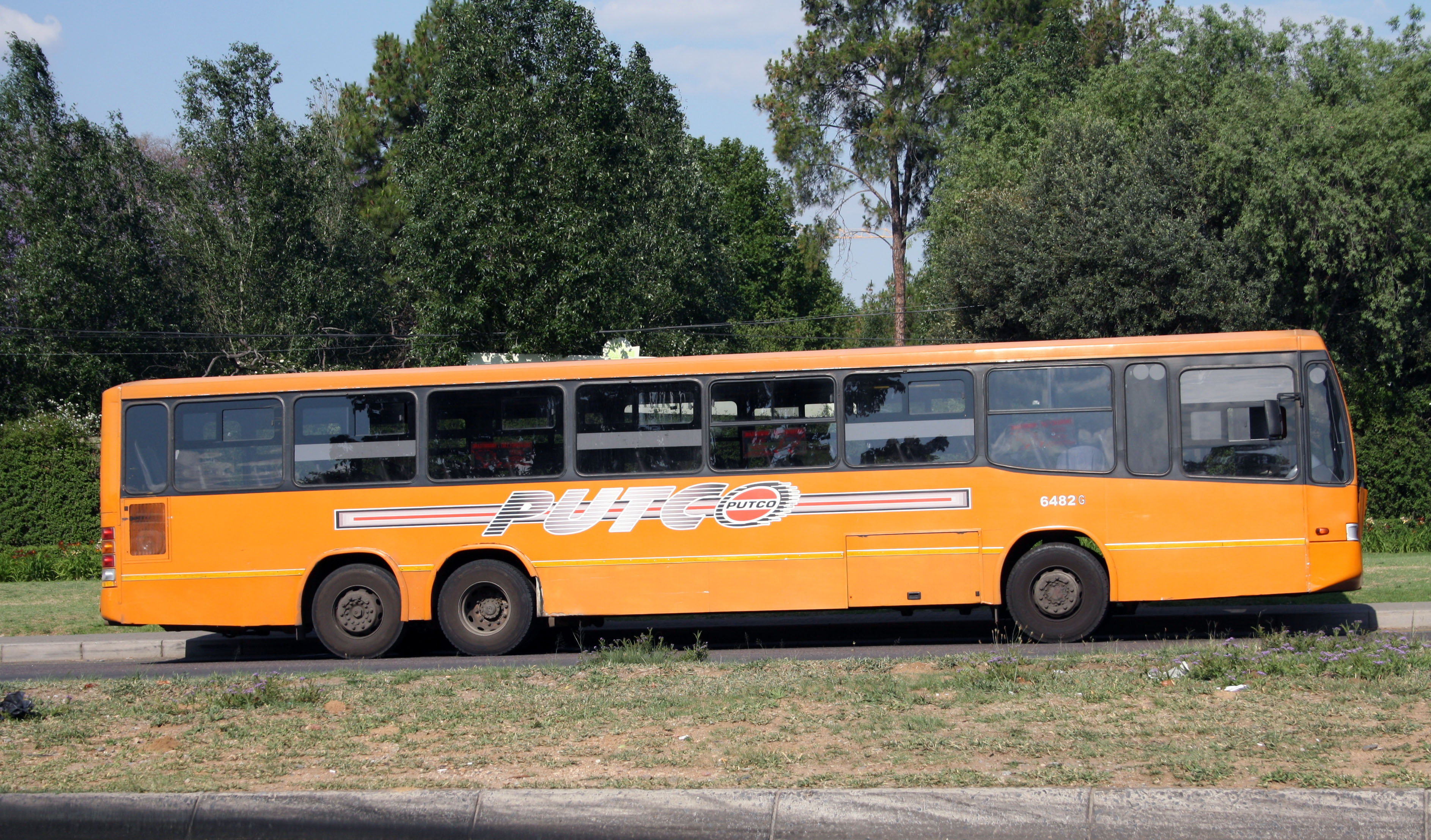 Putco Irisbus Iveco EuroRider